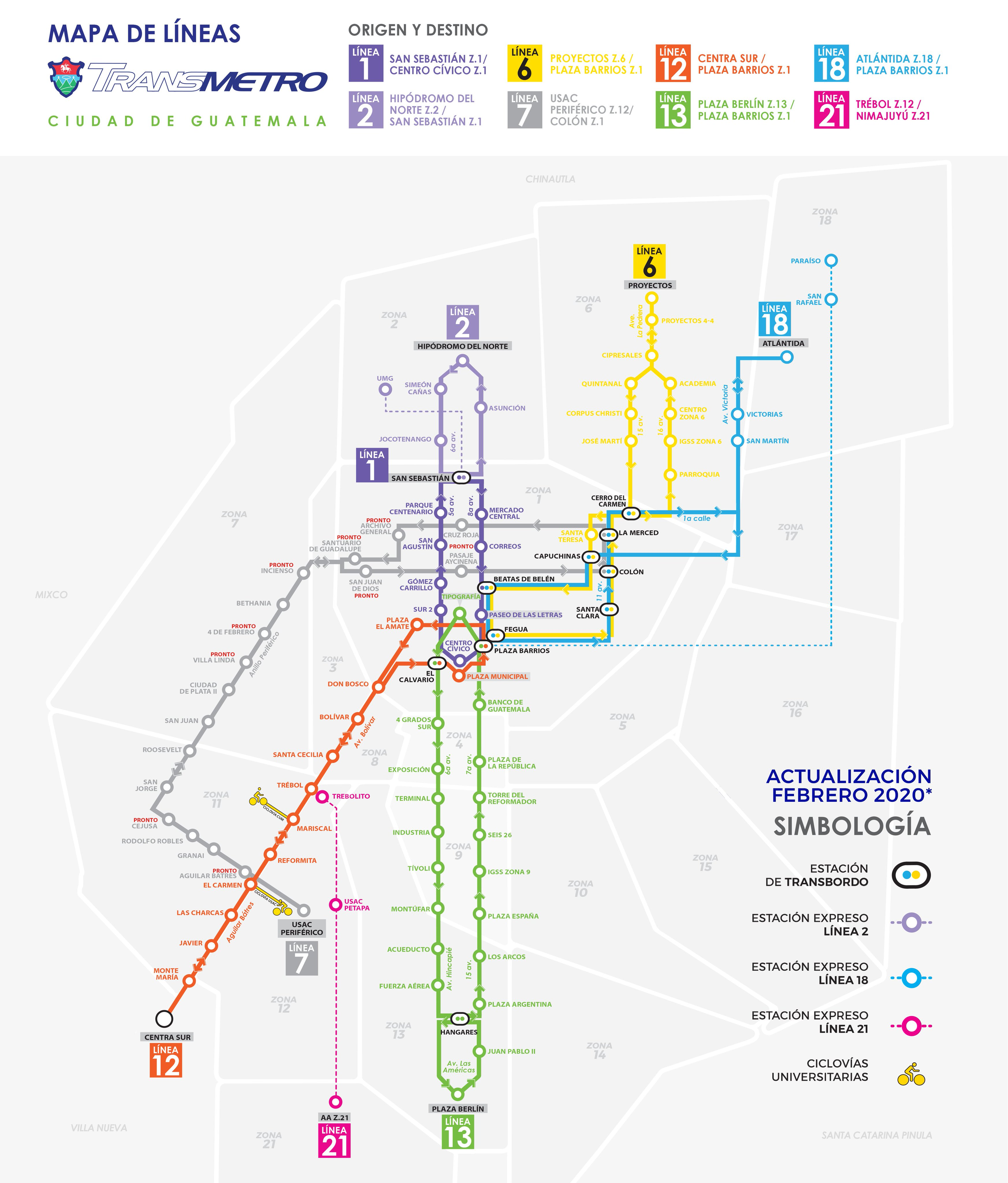 The most recent transit map is publicly available on the system's twitter account and has been updated as of March 2020.